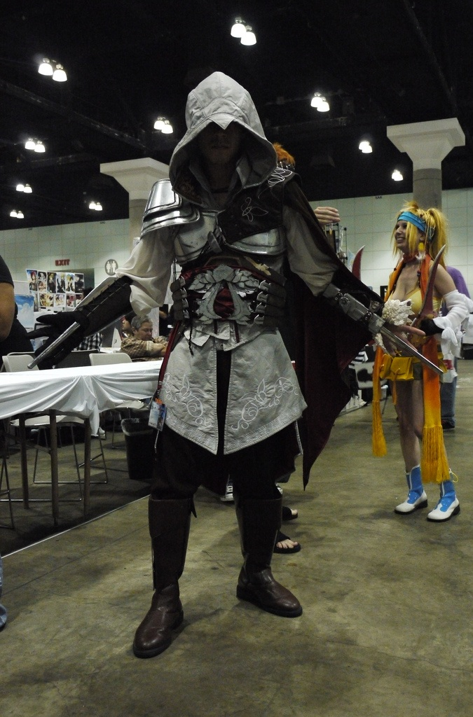 A cosplayer portraying Ezio Auditore from Assassin's Creed II